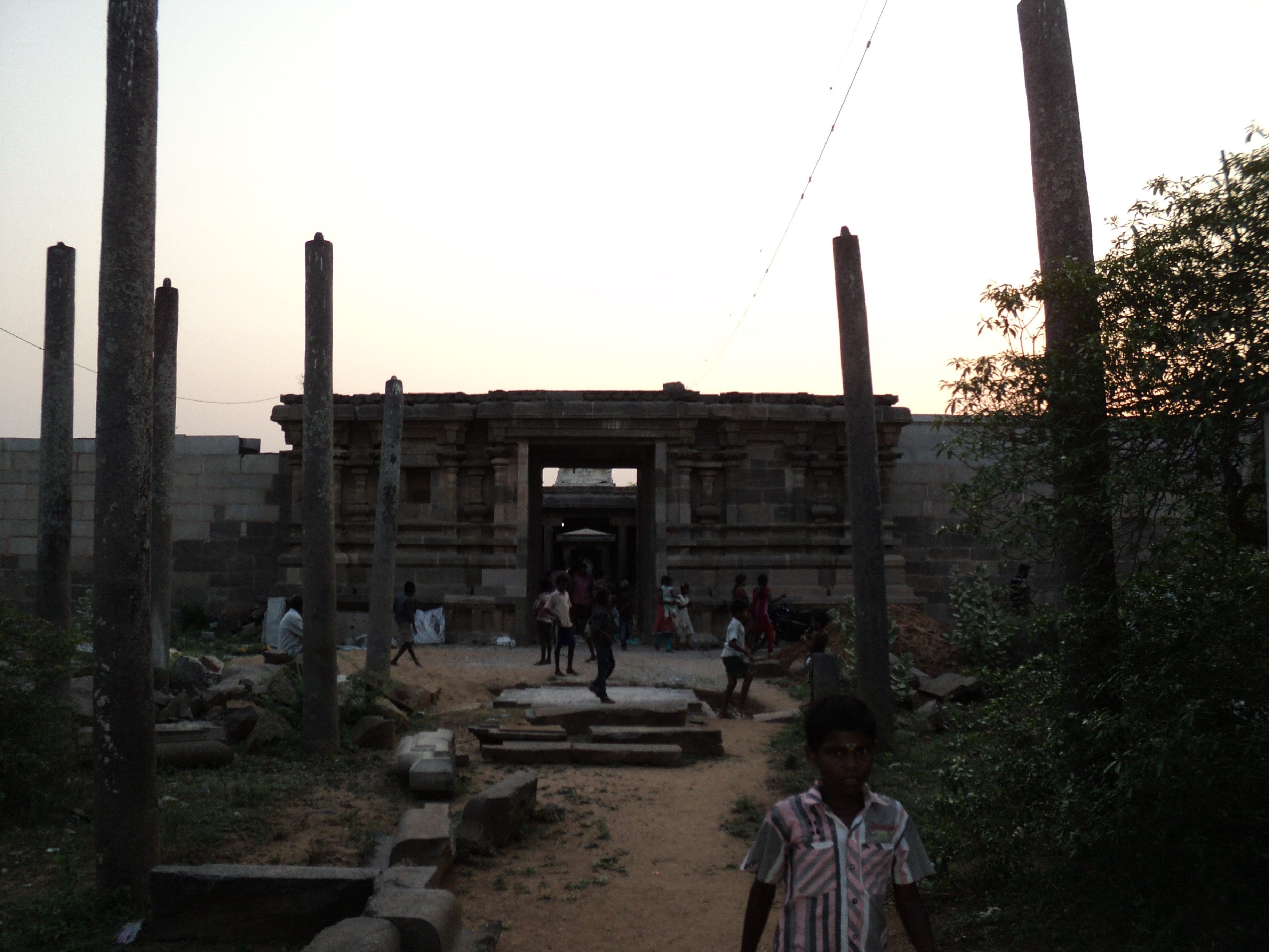 12th century tamil temple